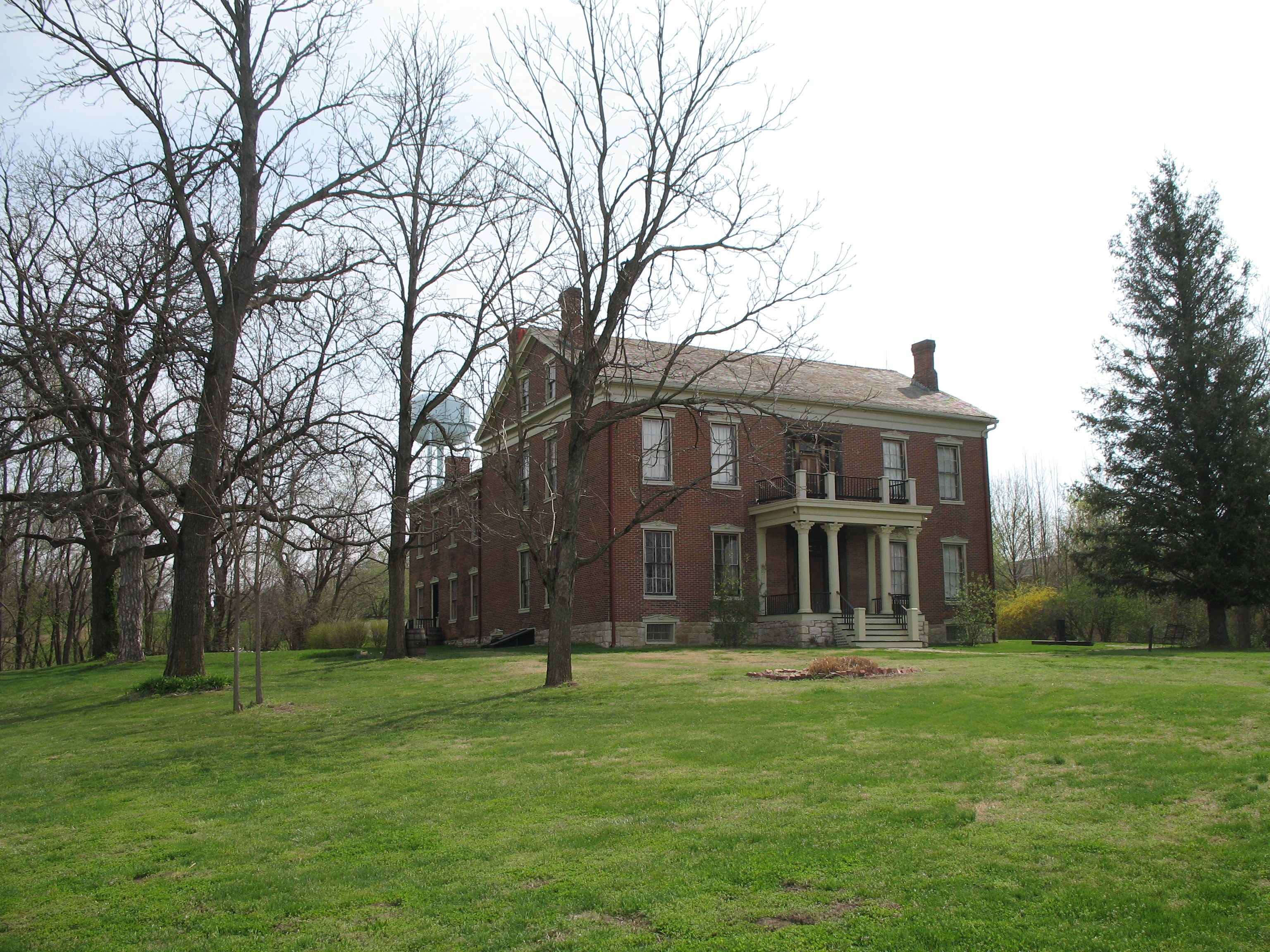 Anderson House, the Union hospital, which Confederates stormed during the Battle of Lexington I. Photo by poster in March 2007.